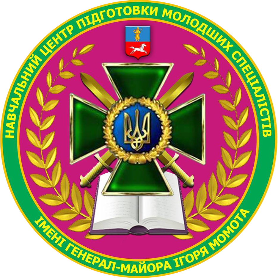 Training center named after Col. Momot (Border Guards of Ukraine) emblem